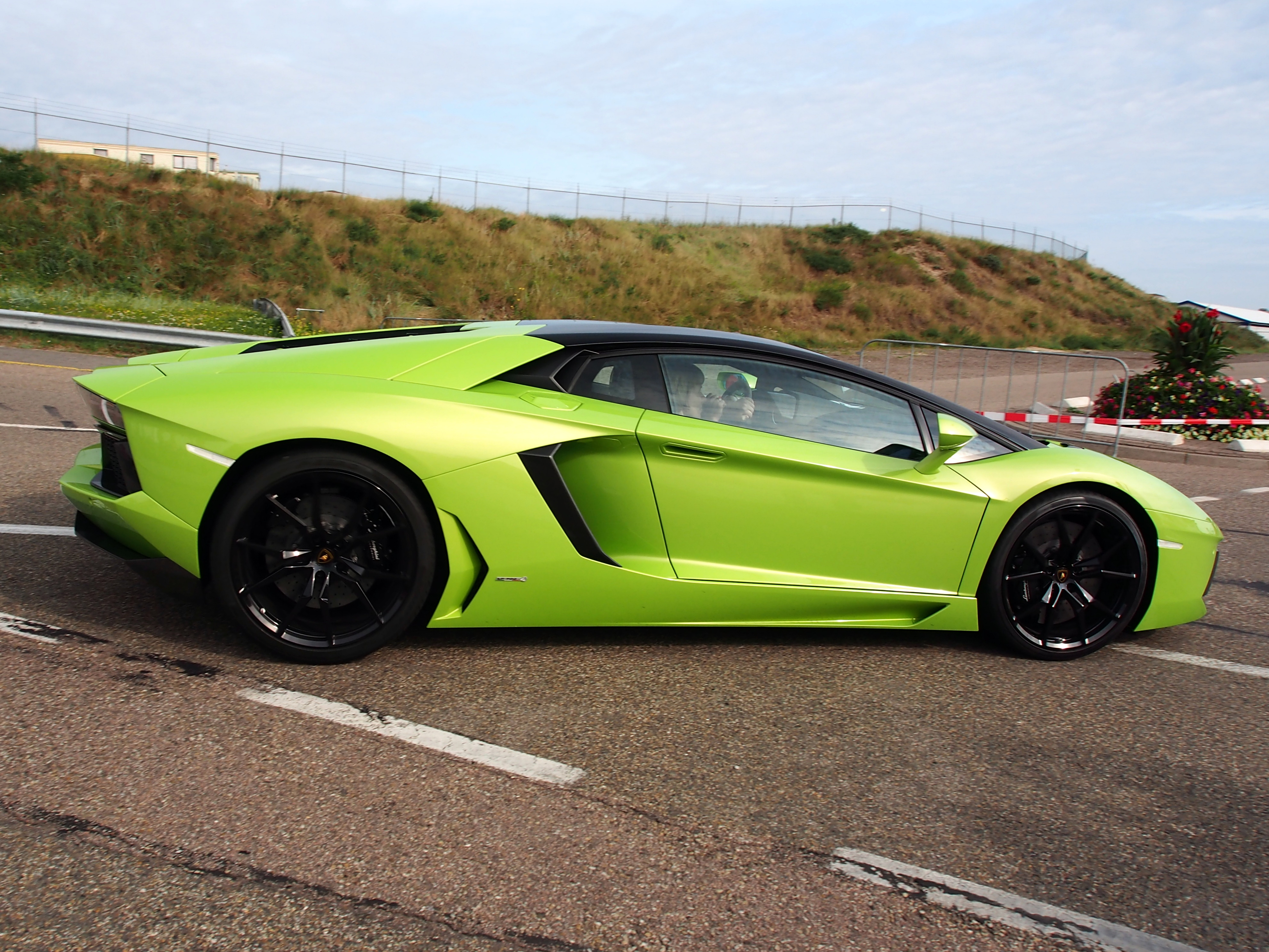 Photographed at the Nationaal Oldtimer Festival Zandvoort 2014, The Netherlands.